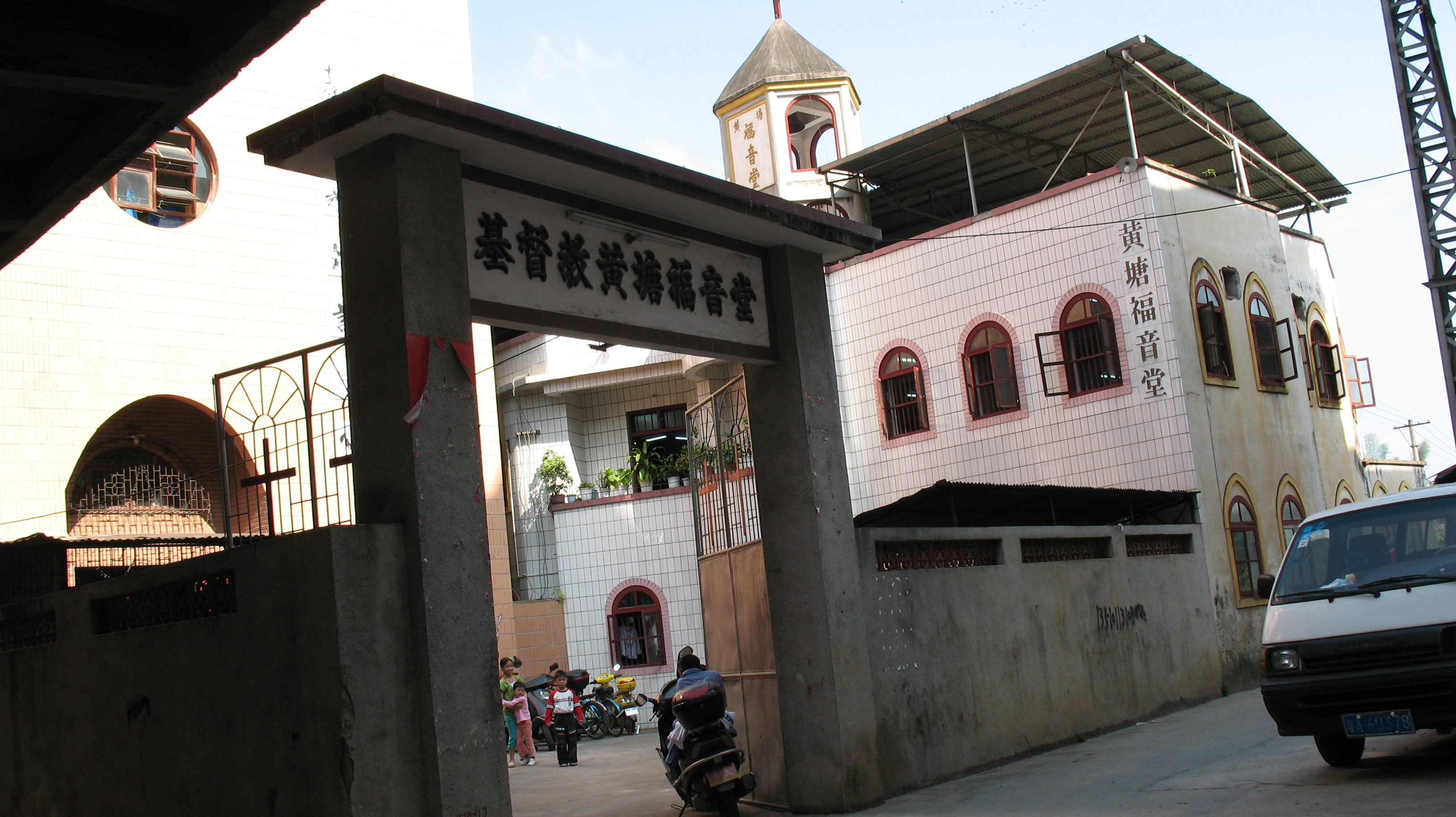 Huang Tang Fuyintang, Huang tang protestant church, Meizhou, China 2006